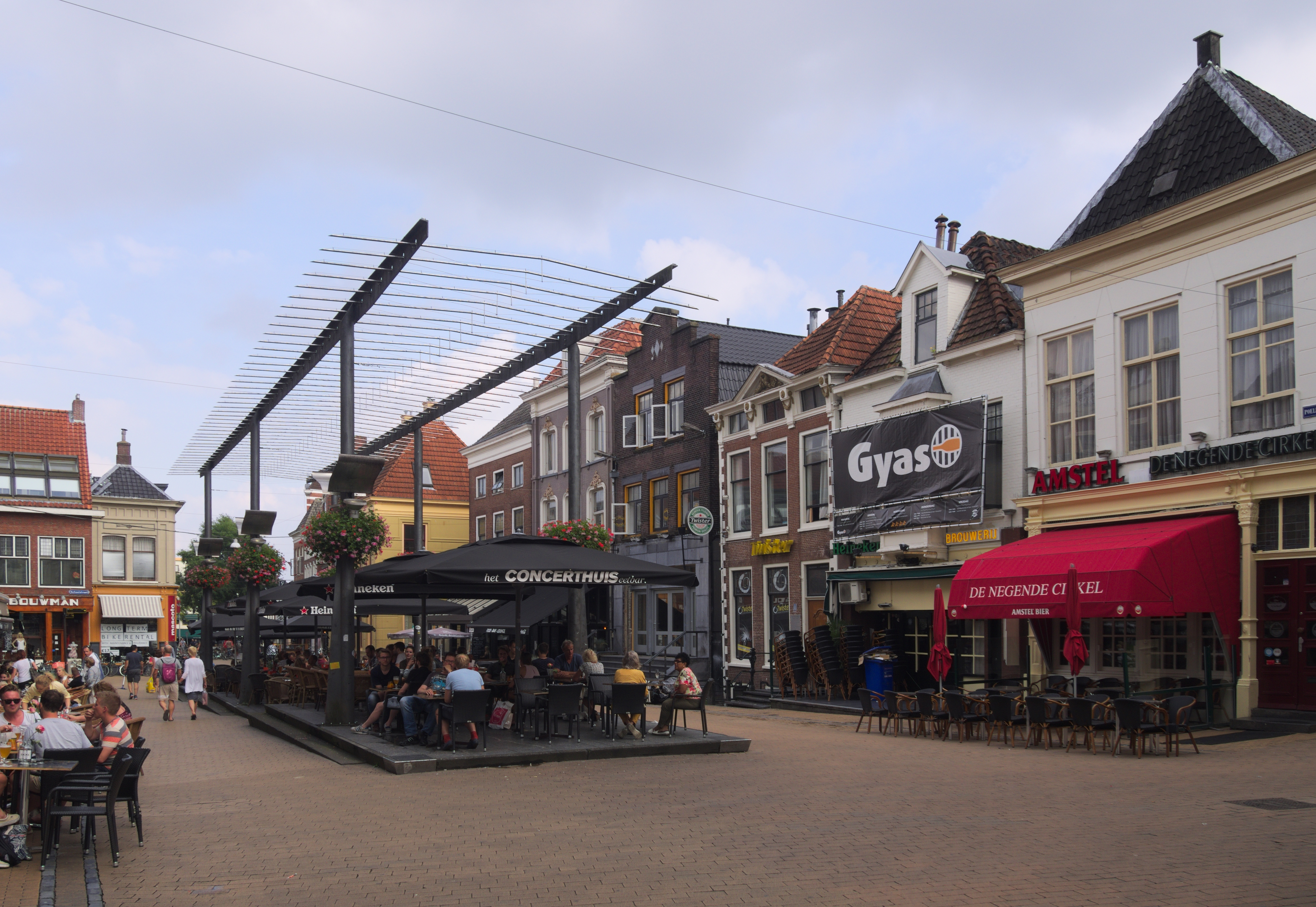 Poeleplein, in Groningen, at the afternoon.